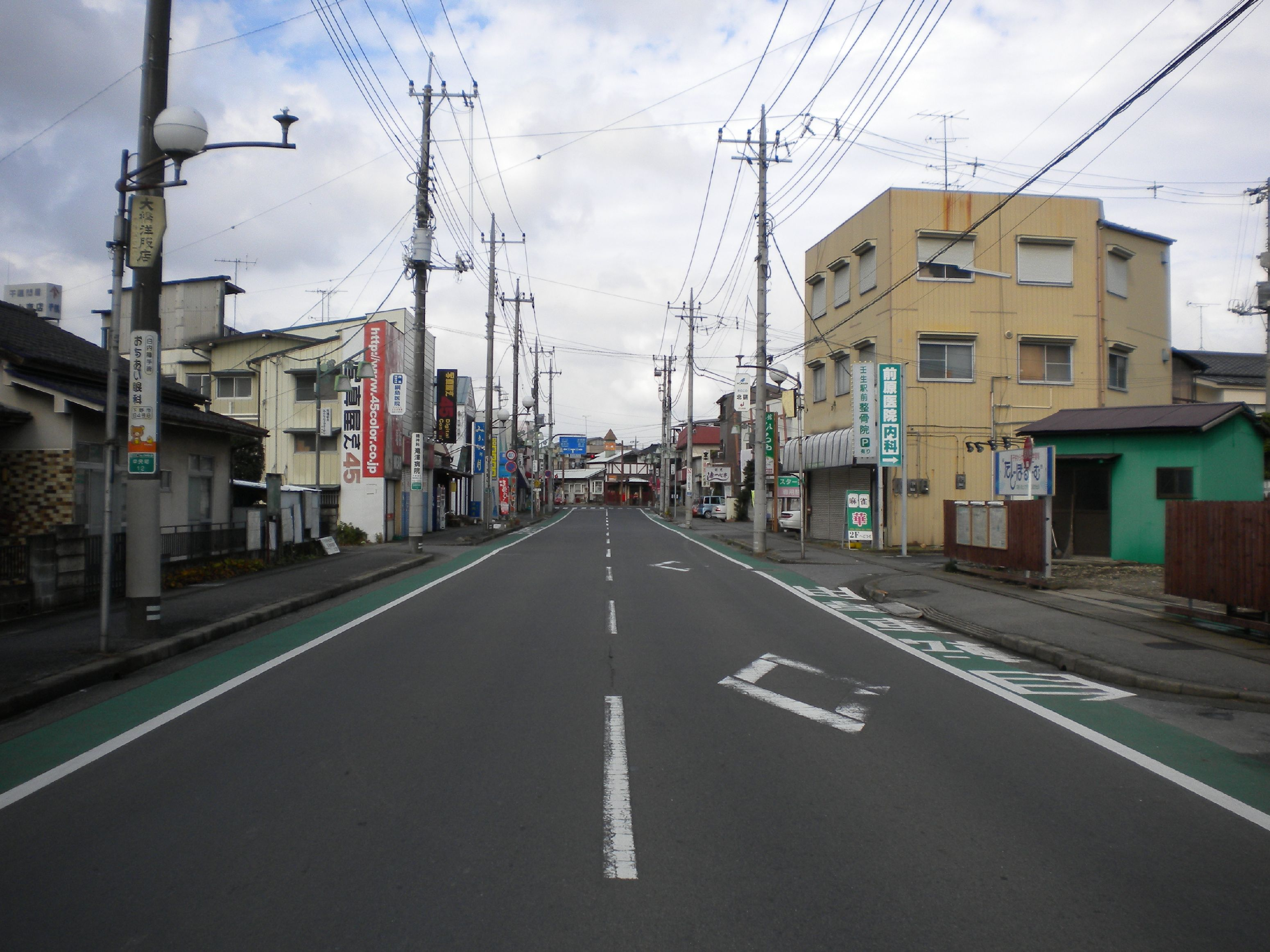 Tochigi prefectural road No.121 on Mibu town